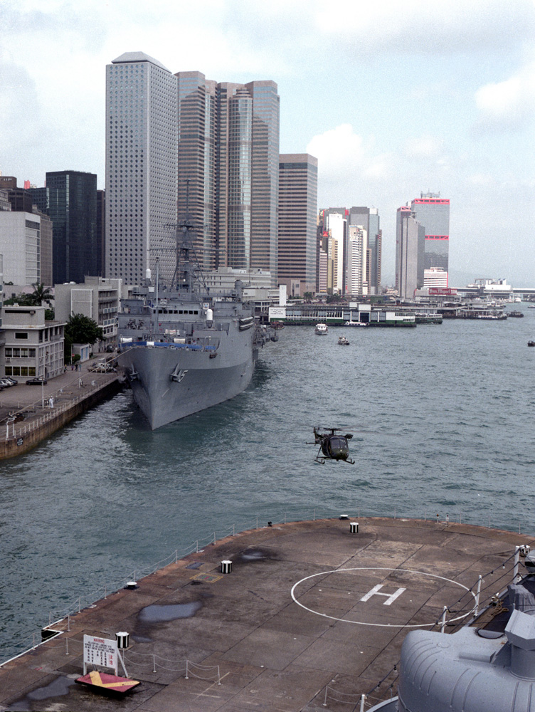 A bow view of the amphibious transport dock USS OGDEN (LPD-5) moored to a pier at HMS Tamar, a British naval facility.